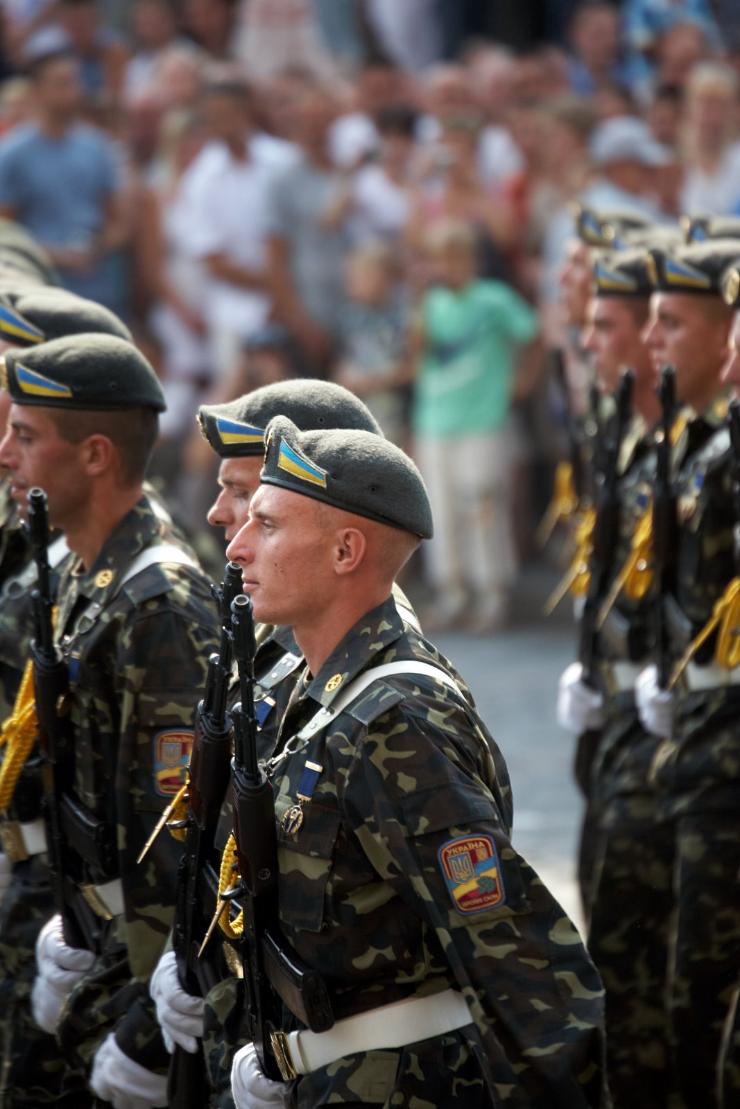 Ukrainian soldiers during the Independence Day parade in Kiev, Ukraine in 2008.